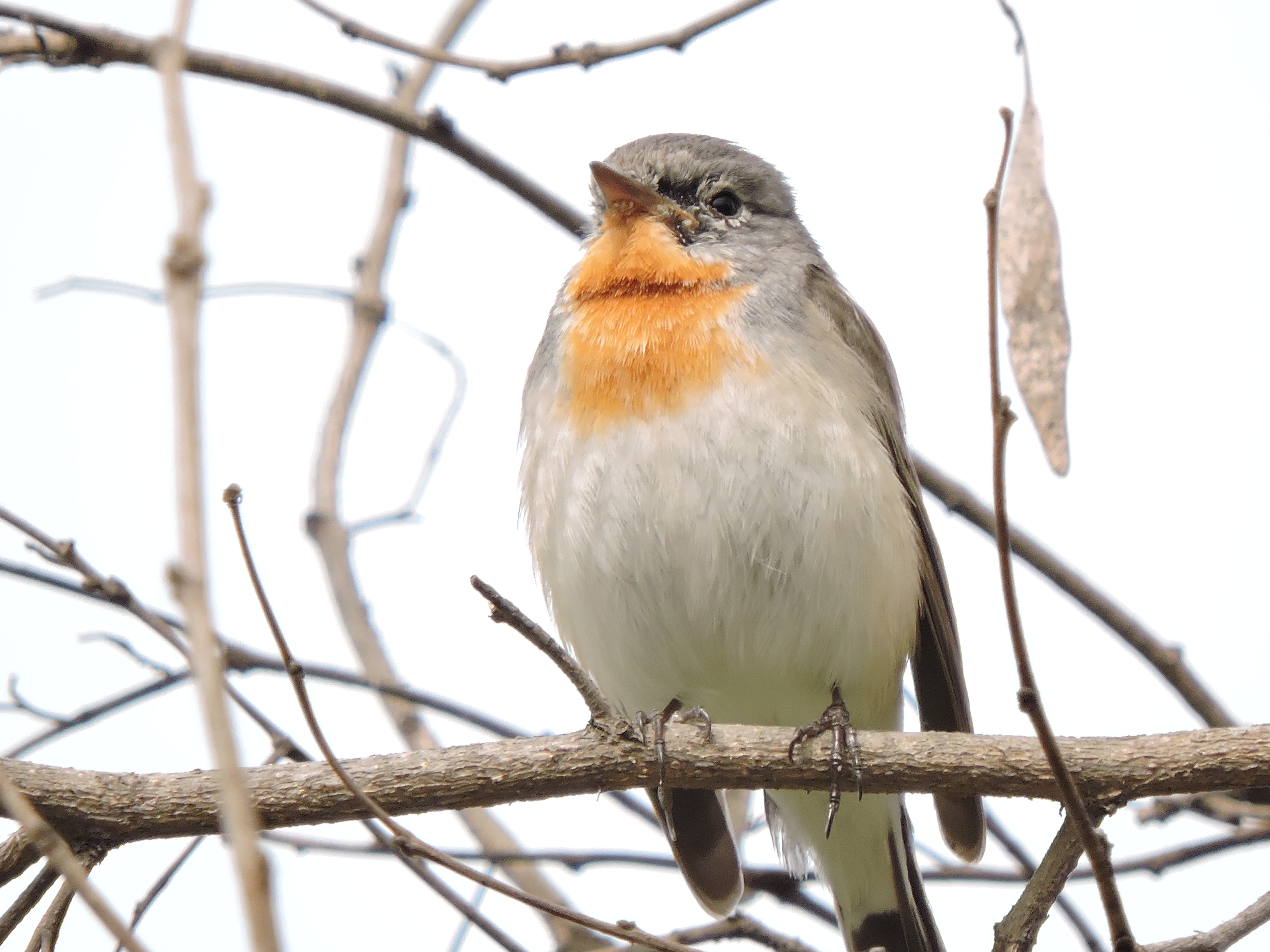 Red-breasted flycatcher, Nature Park, Mohali, Punjab